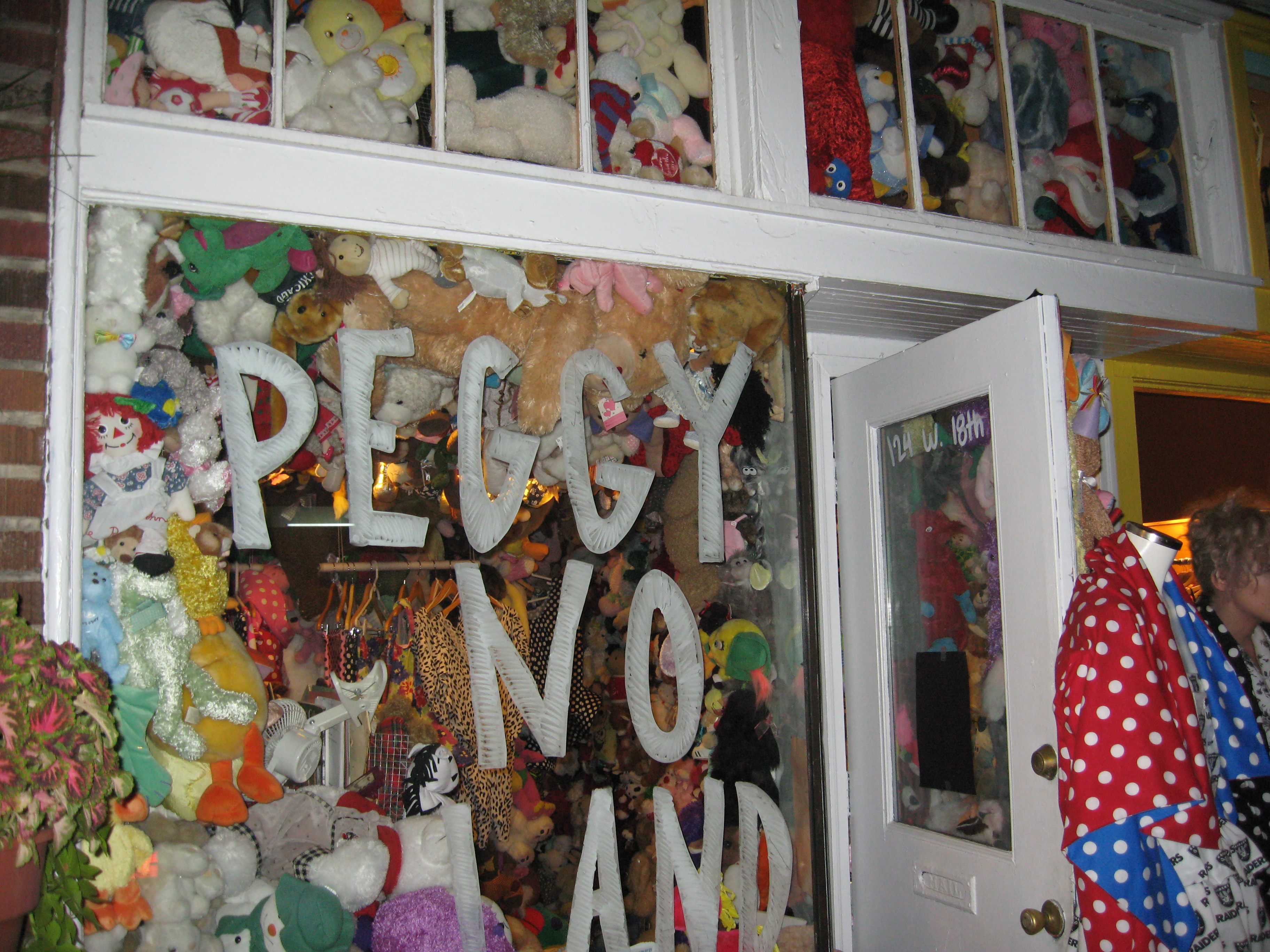 Shop front of Peggy Noland Kansas City, Missouri. Hundreds and hundreds of STUFFED ANIMALS!